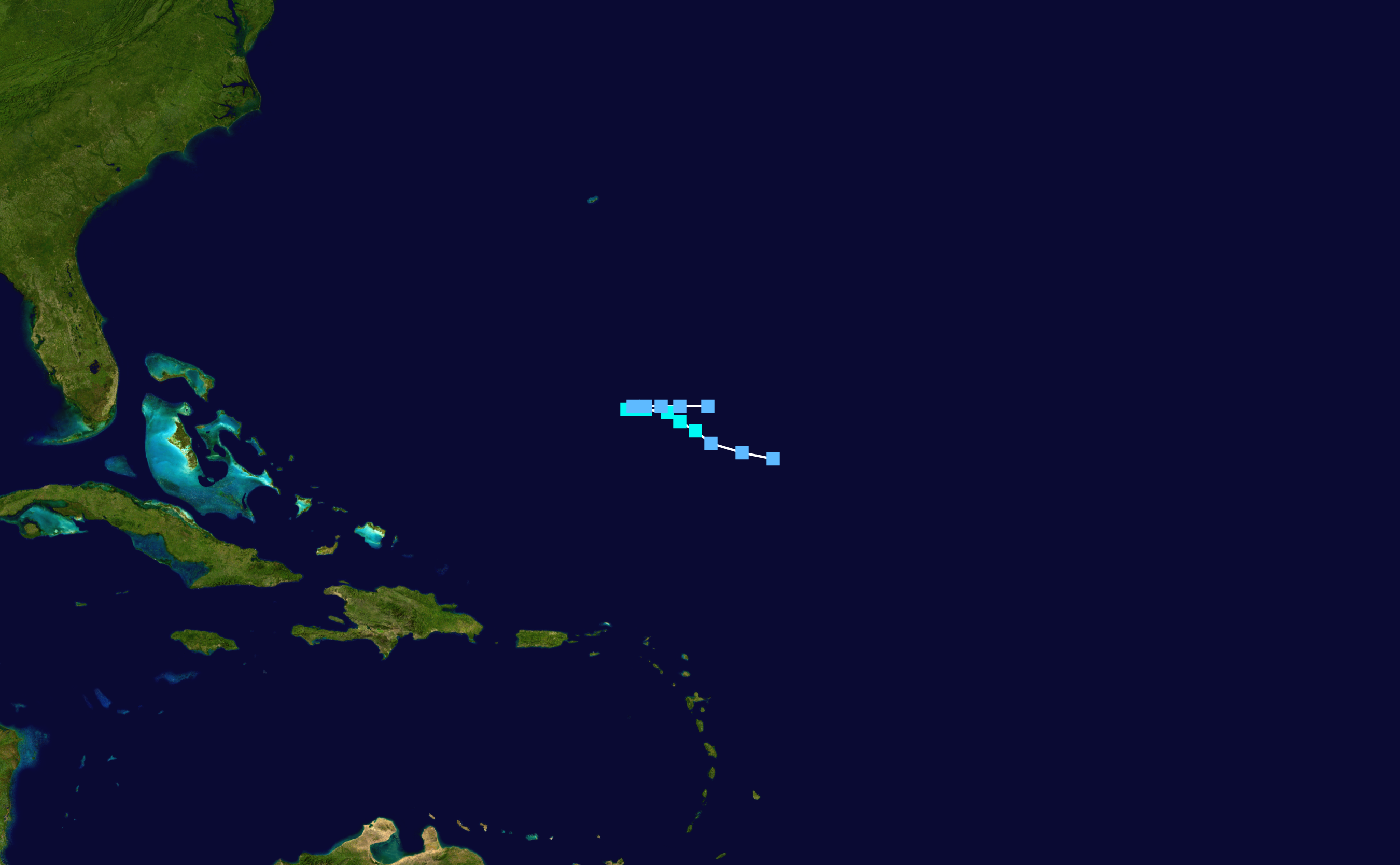 Track map of Subtropical Storm One of the 1992 Atlantic hurricane season. The points show the location of the storm at 6-hour intervals. The colour represents the storm's maximum sustained wind speeds as classified in the Saffir–Simpson scale (see below), and the shape of the data points represent the nature of the storm, according to the legend below. Saffir–Simpson scale Tropical depression≤38 mph≤62 km/h Category 3111–129 mph178–208 km/h Tropical storm39–73 mph63–118 km/h Category 4130–156 mph209–251 km/h Category 174–95 mph119–153 km/h Category 5≥157 mph≥252 km/h Category 296–110 mph154–177 km/h Unknown Storm type Tropical cyclone Subtropical cyclone Extratropical cyclone / Remnant low / Tropical disturbance / Monsoon depression